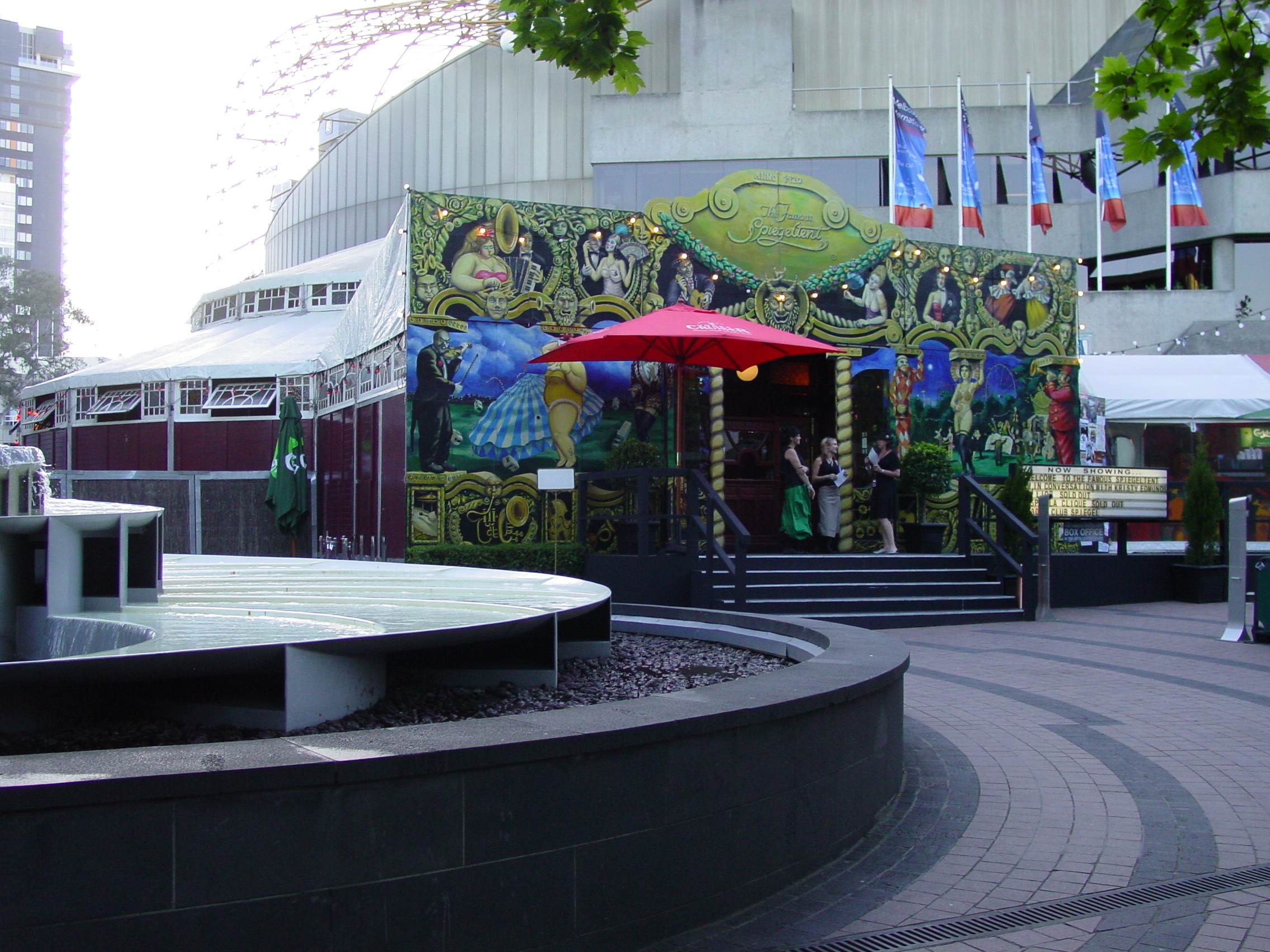 The Famous Spiegeltent (touring Belgian mirror tent) in the grounds of the Victorian Arts Centre, Melbourne, Australia.